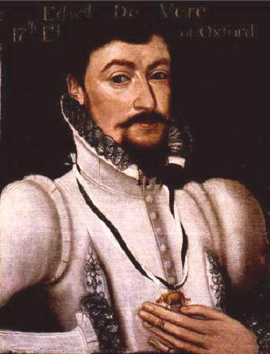 Portrait of Edward de Vere, 17th Earl of Oxford (1550-1604), formerly owned by the Duke of St. Albans, currently in the possession of the Minos Miller Trust Fund. NOTE: The identification and attribution of this portrait is suspect on the grounds of fashion and artistic style, according to Sir Roy Strong. Burris, Barbara, "The Ashbourne Portrait: Part II", Shakespeare Matters Winter 2002, pp. 20-22, n. 31: "The dating of the Ashbourne painting by costume which sets the Ashbourne in its proper time frame of circa 1579-80 raises the issue of the incongruity of the costume of the St. Alban’s portrait with the inscription denoting that it is a portrait of Edward de Vere. The style of the doublet and the high collar with its tiny lace edged in black that is a precursor of the ruff, in the St. Alban’s portrait belongs to the period of the late 1550s or 1560s. Sir Roy Strong has dated it circa 1565. (Private correspondence with Derran Charlton, Oxfordian researcher, South Yorkshire, England, 2000. Concerning Strong’s recommendation to Peer not to use the St. Alban’s as a portrait of Edward de Vere in the television documentary The Shakespeare Conspiracy.) "The fact that the St. Alban’s has the name Edward de Vere blazoned across it does not counter the primary costume evidence that Sir Roy Strong used to date this painting circa 1565. The costume proves that the inscription is wrong in the St. Alban’s portrait."